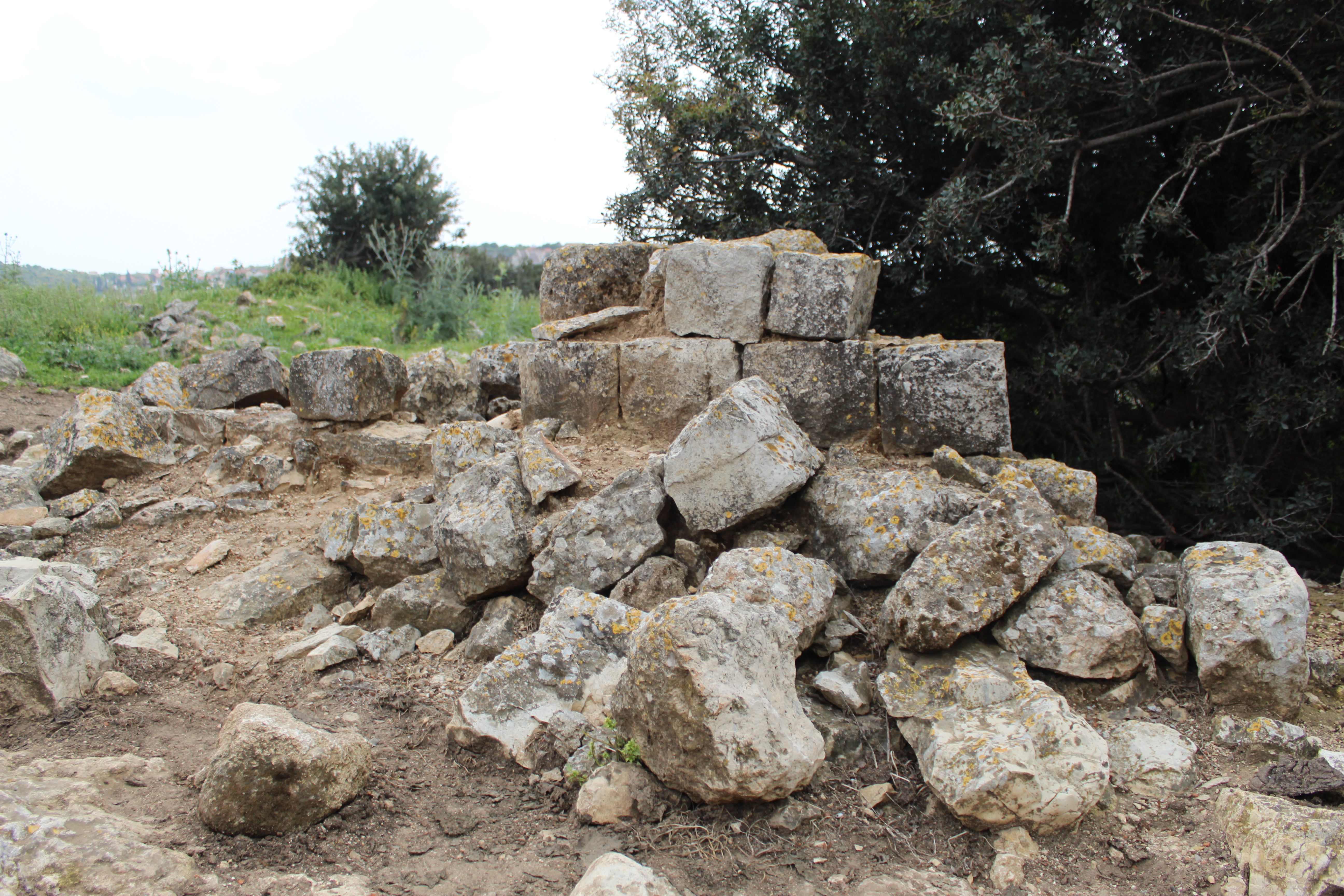 Razed structure at Kafr 'Inan